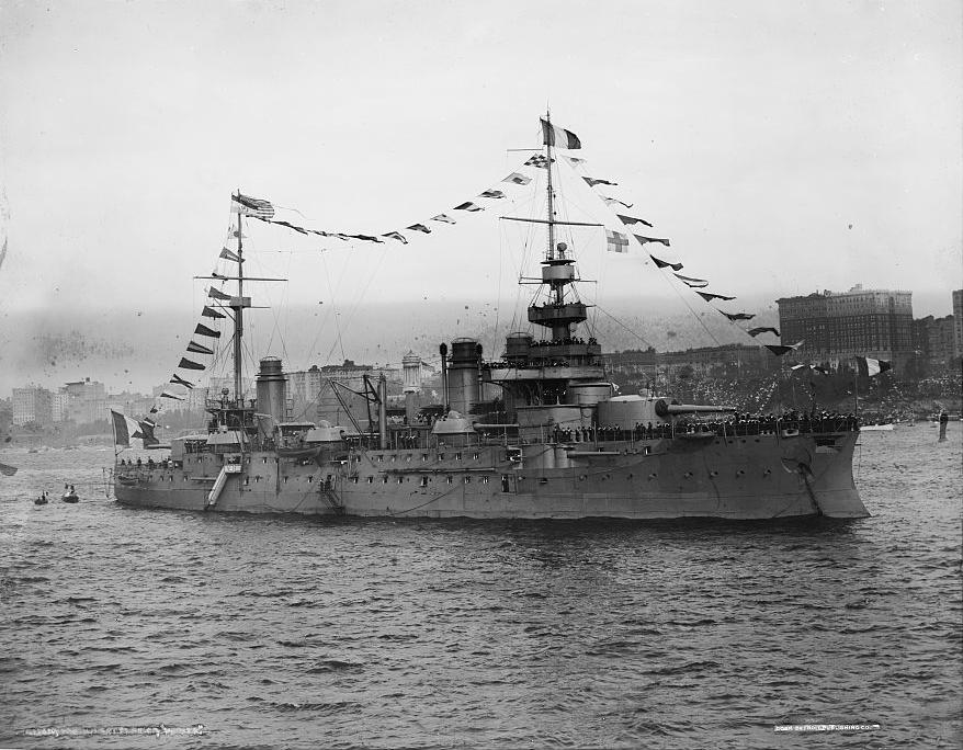 Photograph of French battleship Vérité, in the Hudson River, New York, Hudson-Fulton Celebration, 1909.